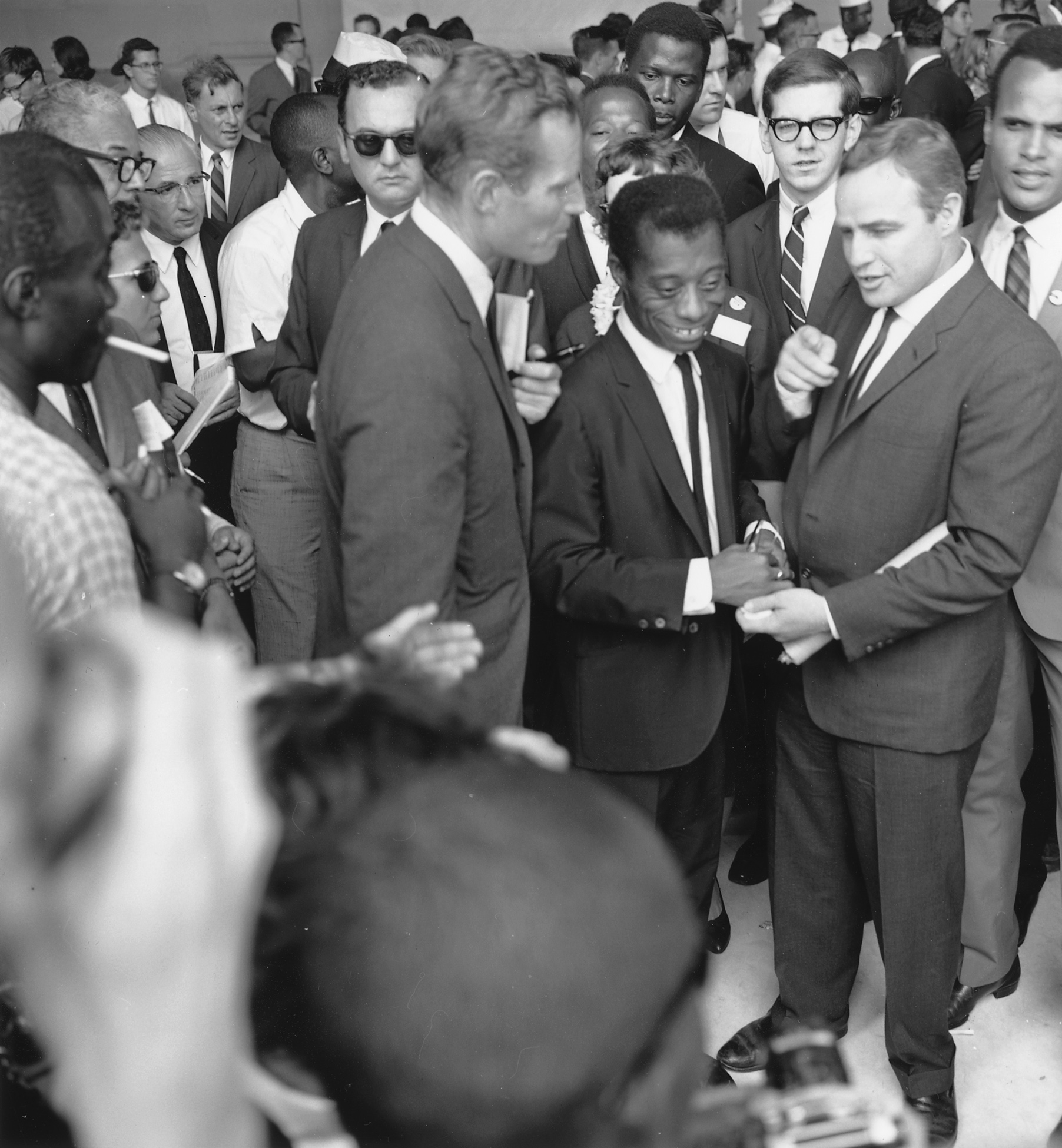 Civil Rights March on Washington, D.C. [Author James Baldwin with actors Marlon Brando and Charlton Heston.], 08/28/1963